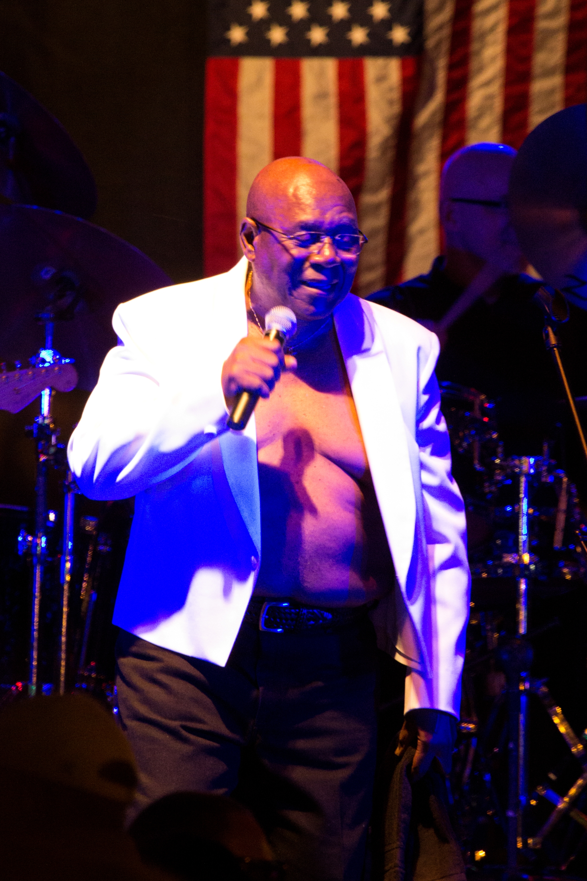 Mighty Sam McClain at the Mississippi Valley Blues Fest, Davenport, IA 7/05/13